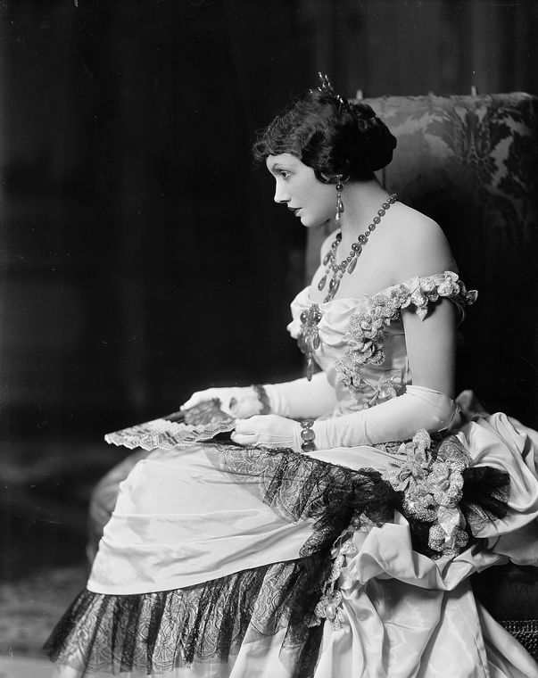 Photograph of the American actress Katherine Cornell in the dramatization of "The Age of Innocence," 1929, based on the novel by Edith Wharton.